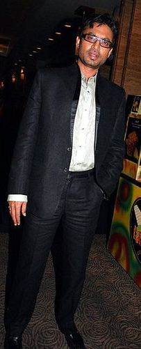 Premiere of The Namesake